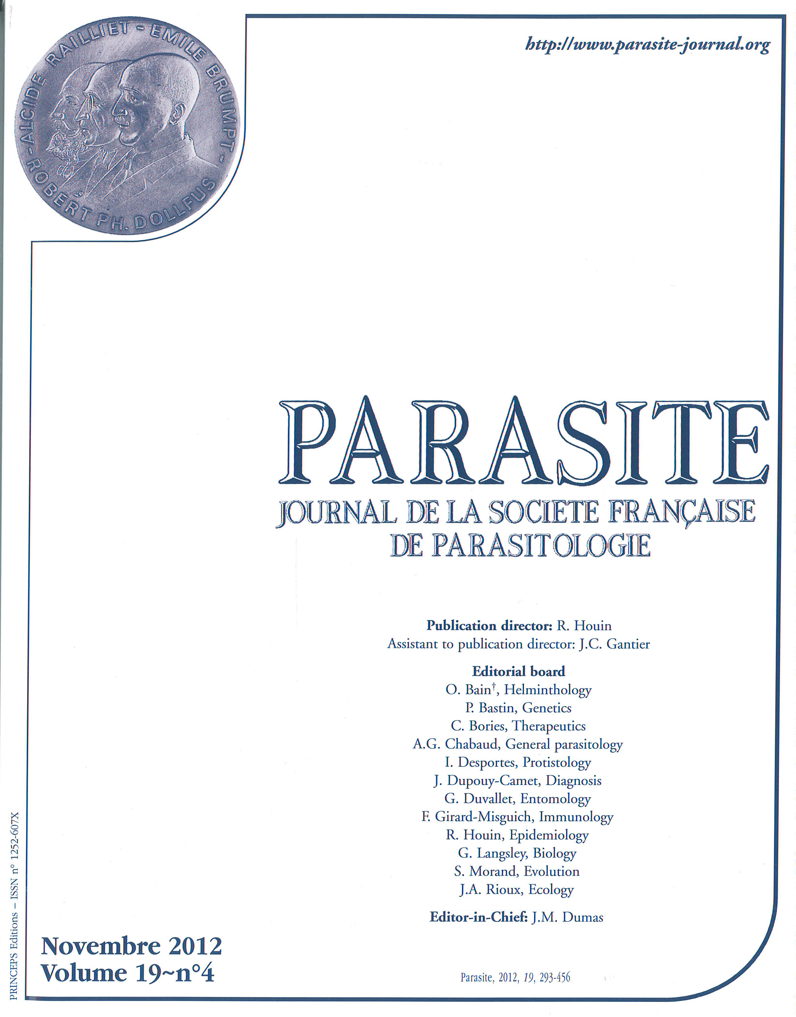 Cover of the scientific journal Parasite [1] - last issue published on paper, November 2012